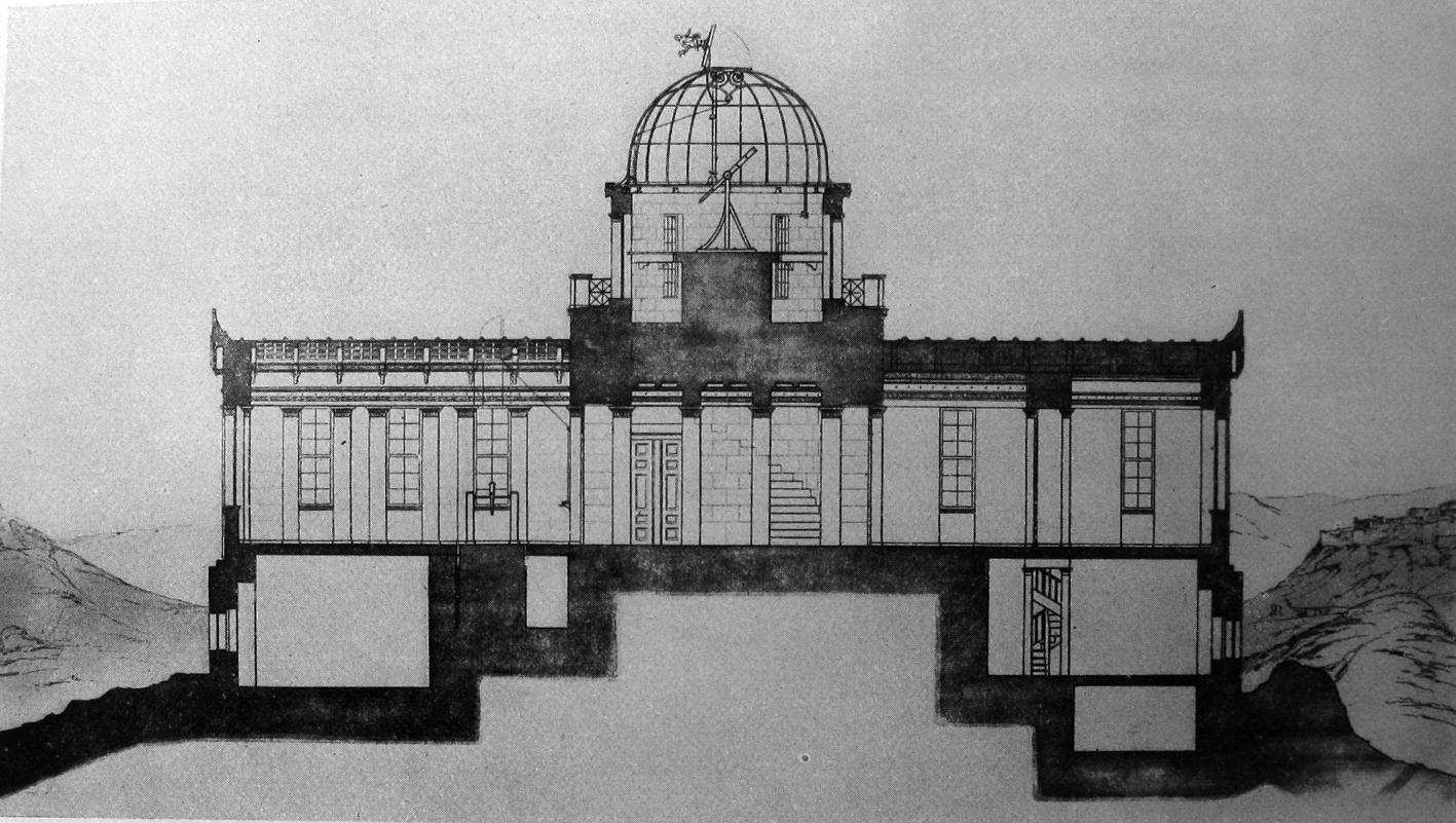 Athens observatory